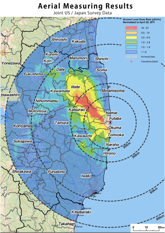 A map of the instant radioactivity of the Fukushima reactor area, as measured from the air.